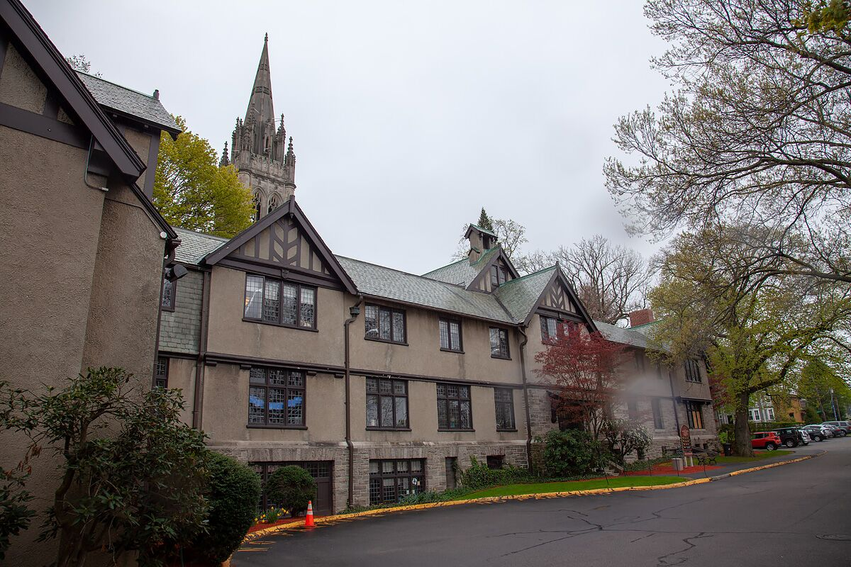 Second Church in Newton, 60 Highland Street, West Newton, MA. Parish house with Spire in the background. Photo taken in May 2019 by John Borchard